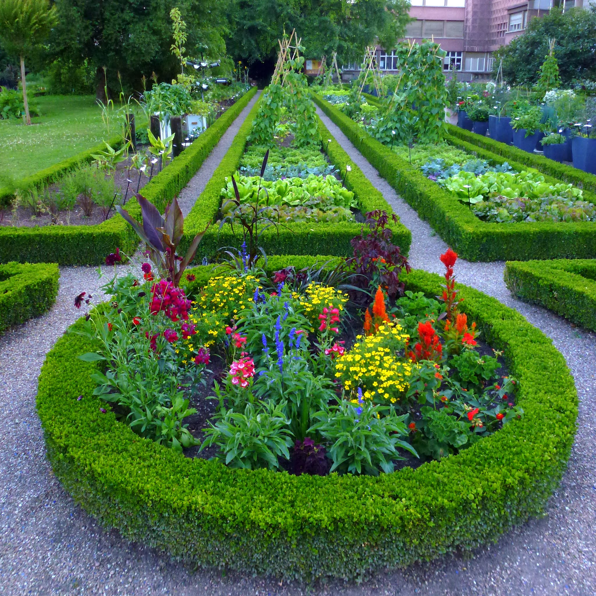 The Jardin Dominique Alexandre Godron, 36 Rue Sainte-Catherine, Nancy, Франция